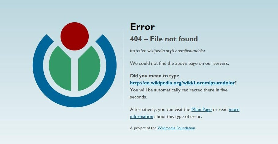 404 message provided by wikimedia.